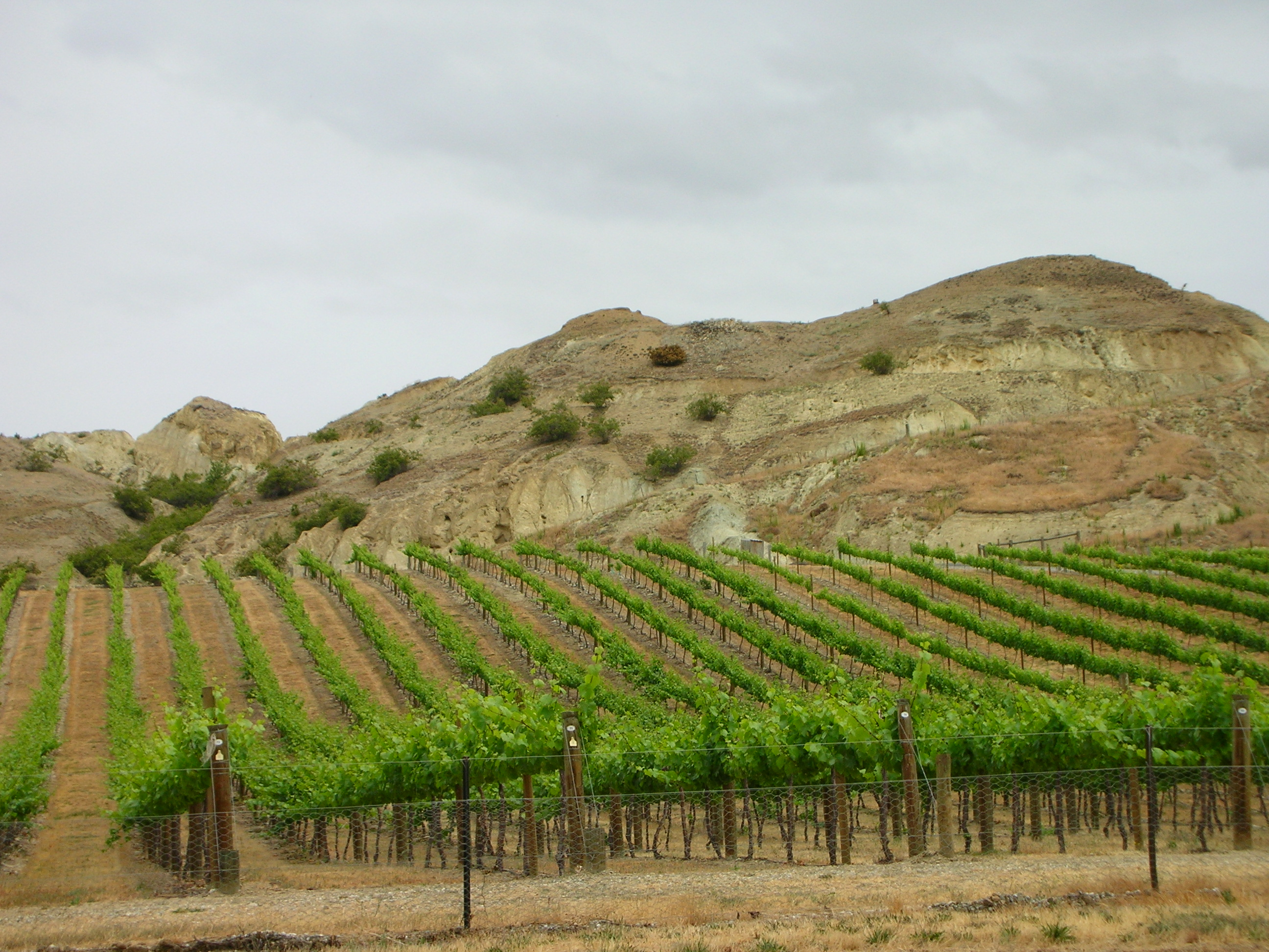 Wineyard in Central Otago, close to Felton Road